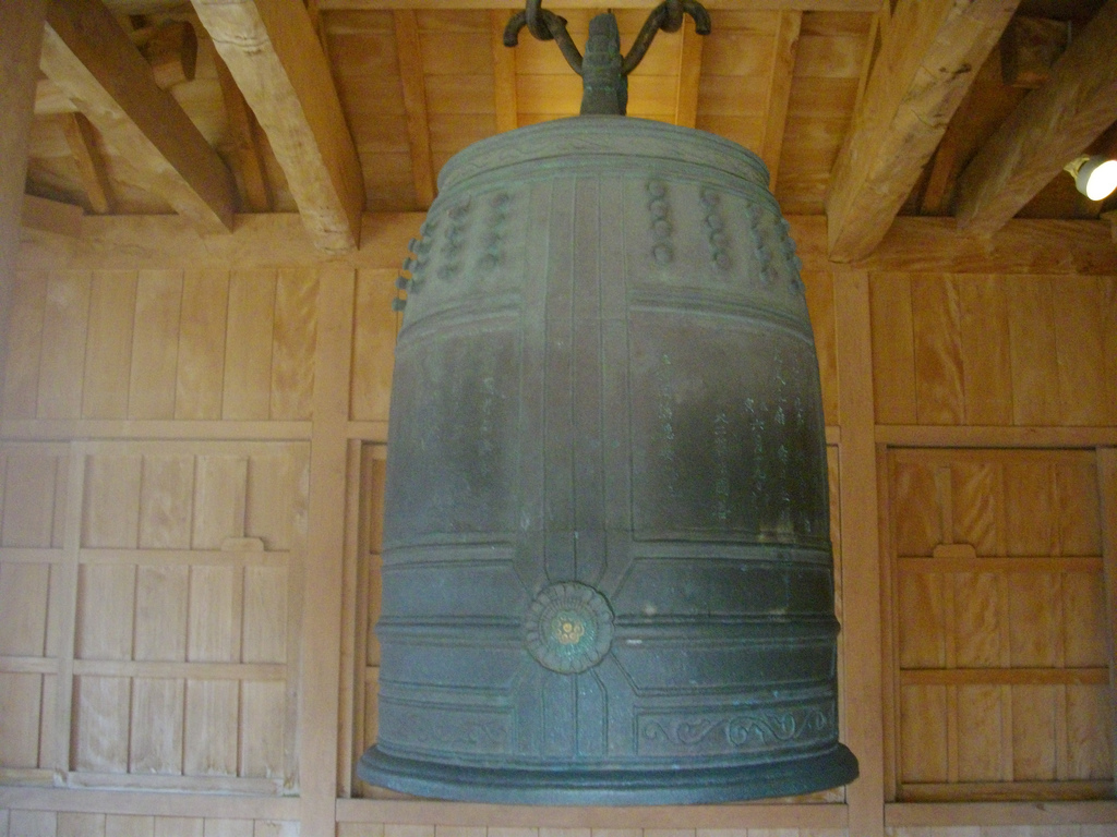 Replica "Bridge of Nations Bell" at Shuri Castle. Original is now in the collection of the Okinawa Prefectural Museum.